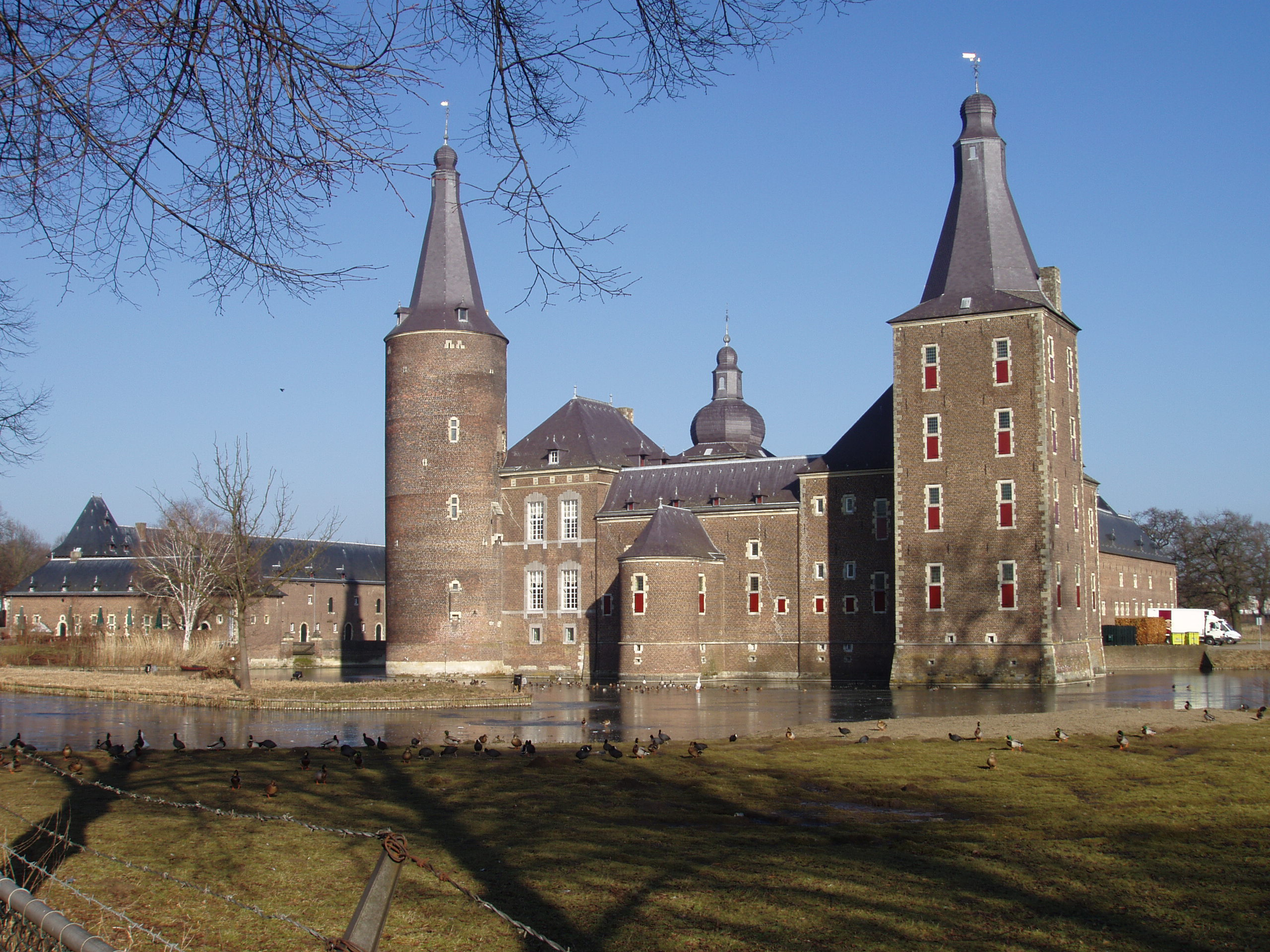 Castle Hoensbroek, Heerlen, Limburg, Netherlands